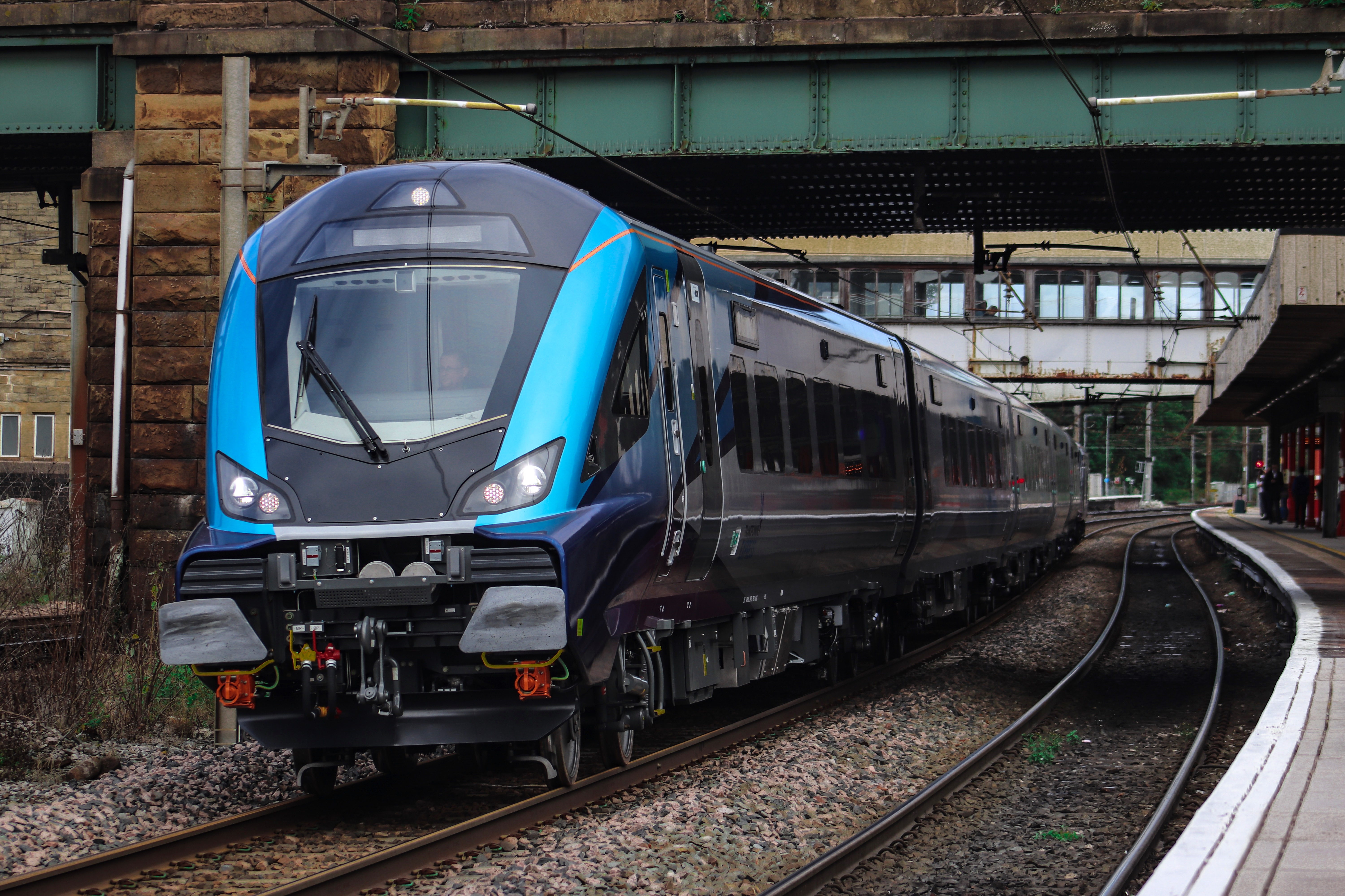 68020 pushing a mk5a DT through Lancaster on test.